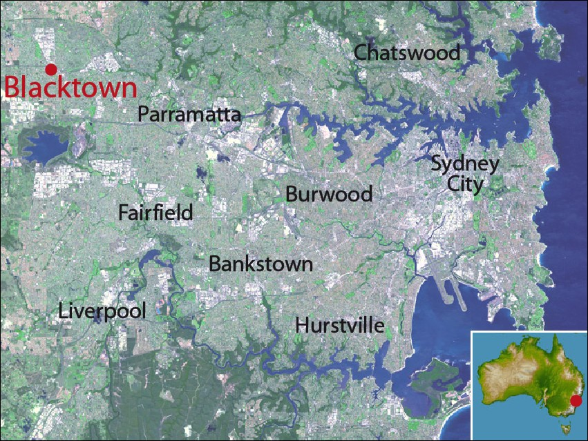 Map of Sydney, highlighting location of Blacktown, New South Wales